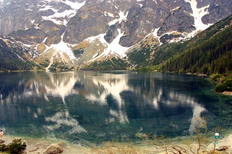 Morskie Oko in the High Tatra (Poland)